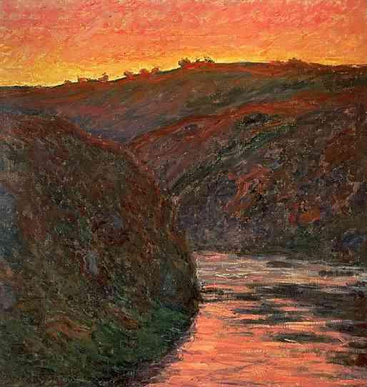 Valley of the Creuse at Sunsetlabel QS:Len,"Valley of the Creuse at Sunset" label QS:Lfr,"Creuse, soleil couchant Musée Unterlinden, Colmar"